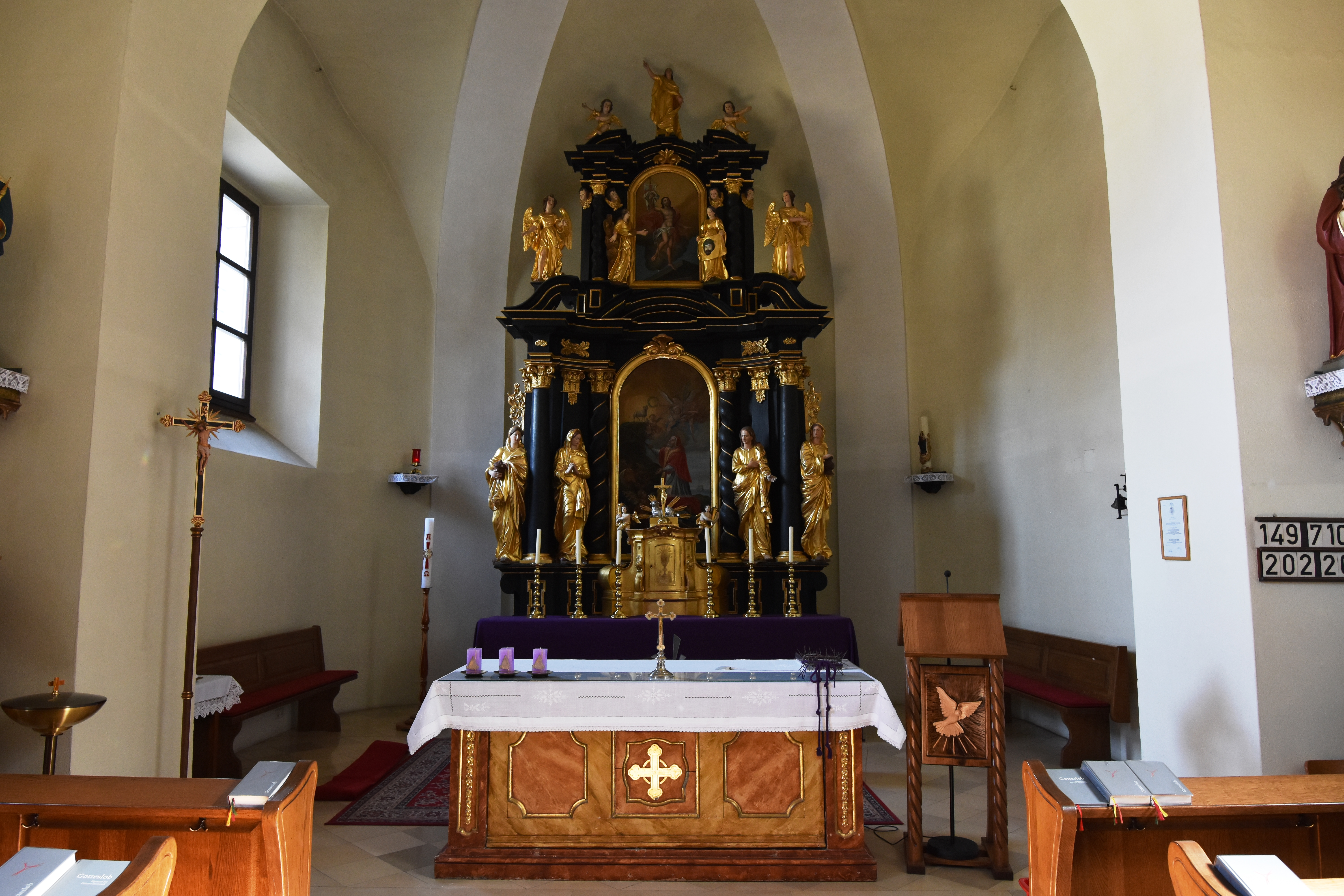 Church Heiligenbrunn - Interior